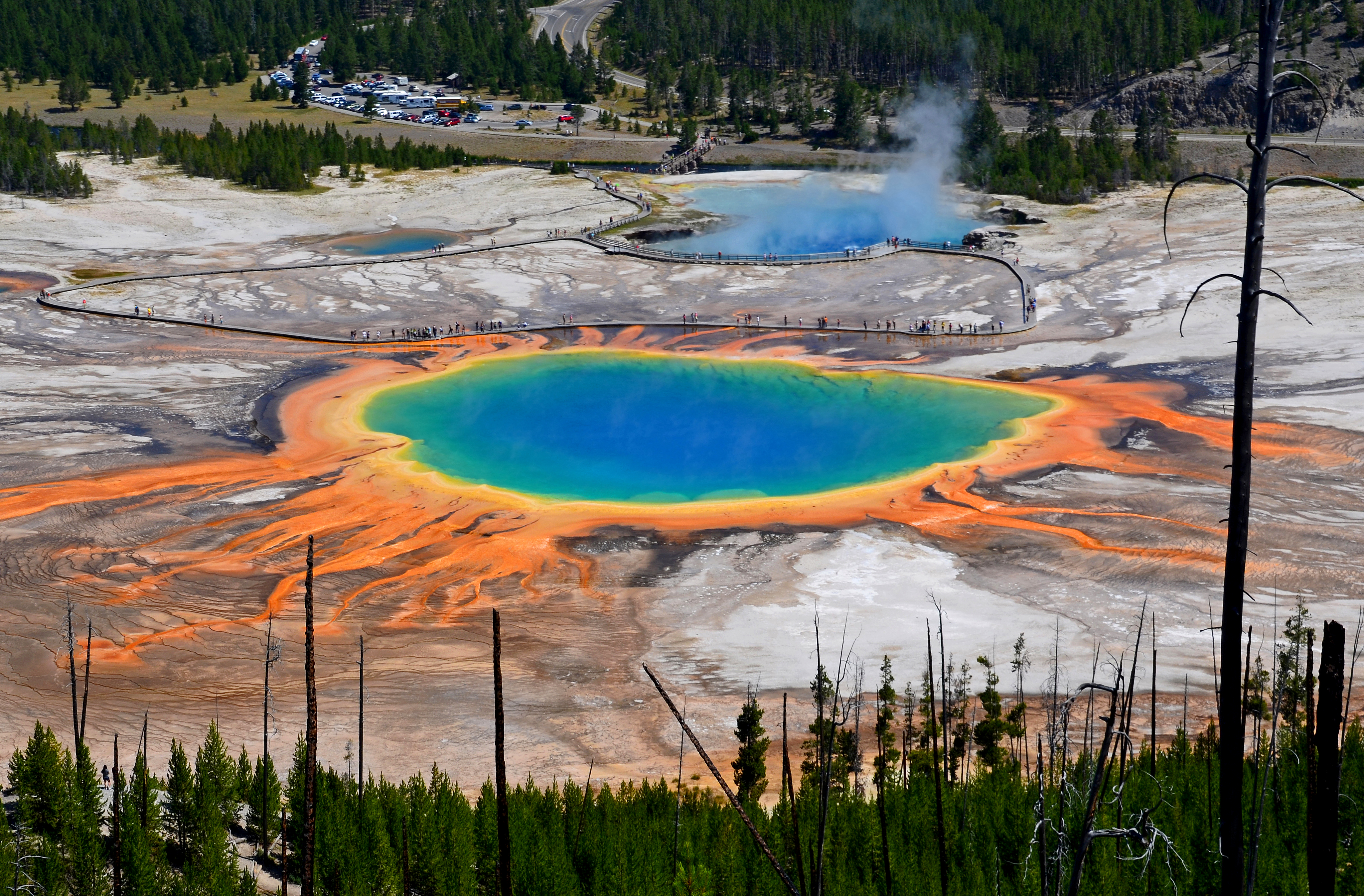 Grand Prismatic Spring, Yellowstone National Park, Wyoming, USA.